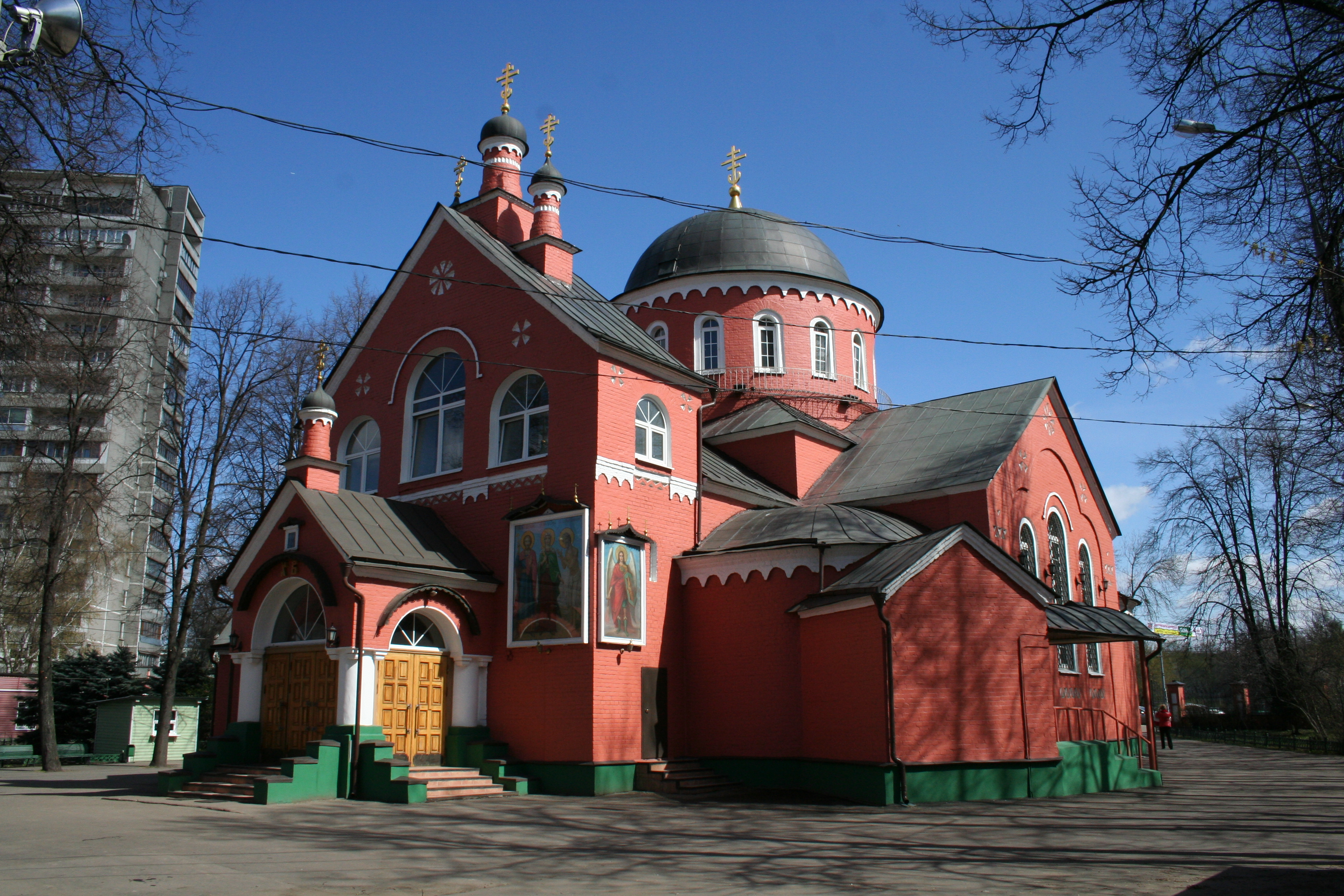 Church of Saints Hadrian and Natalie in Babushkin, Moscow